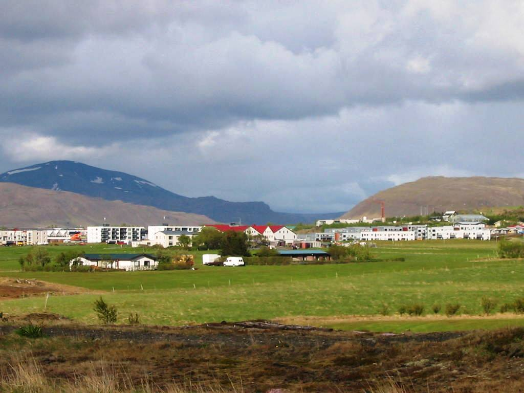 Mossfelsbær (city in Iceland) as seen from outskirts of Reykjavík.